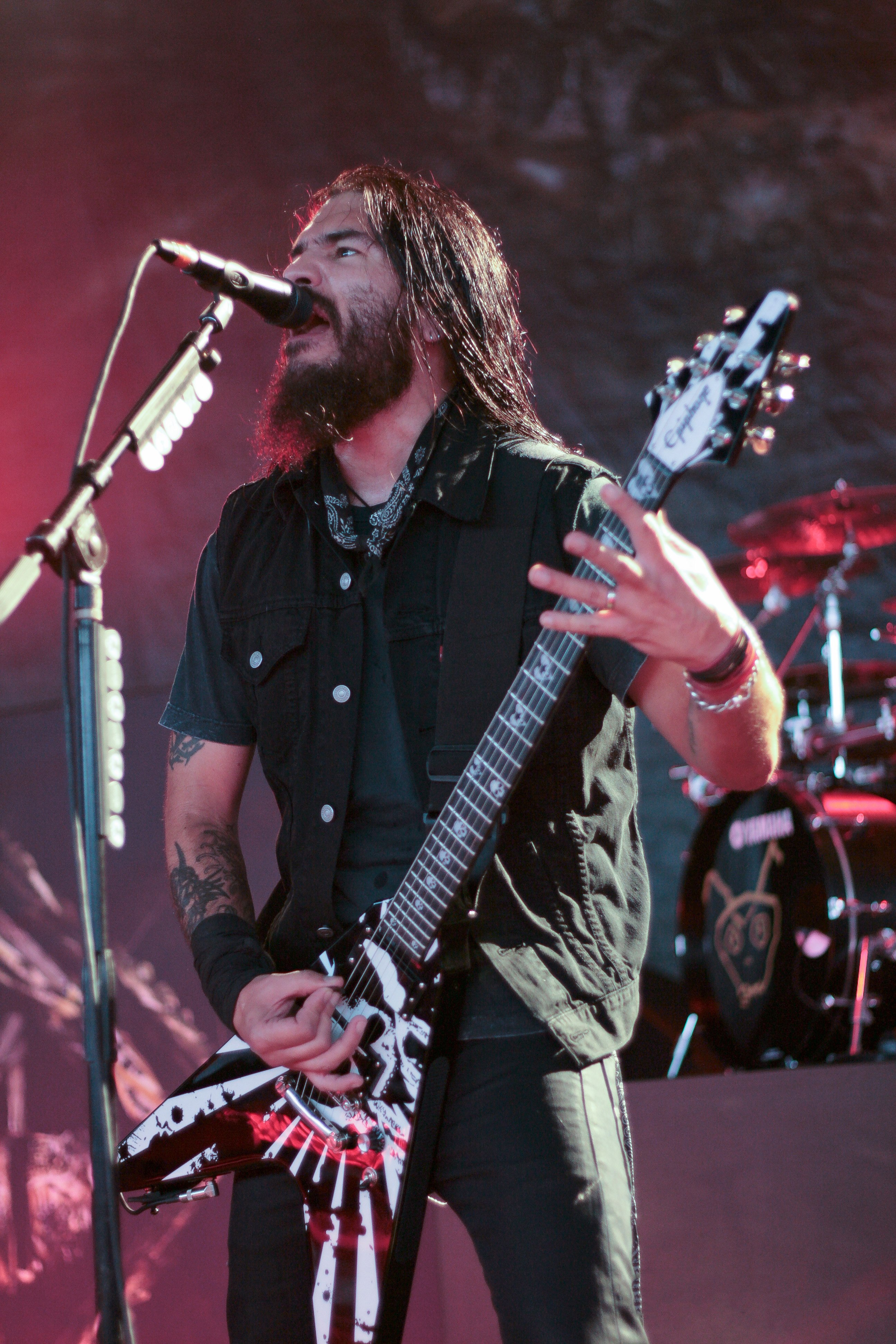 Robb Flynn in August, 2011.